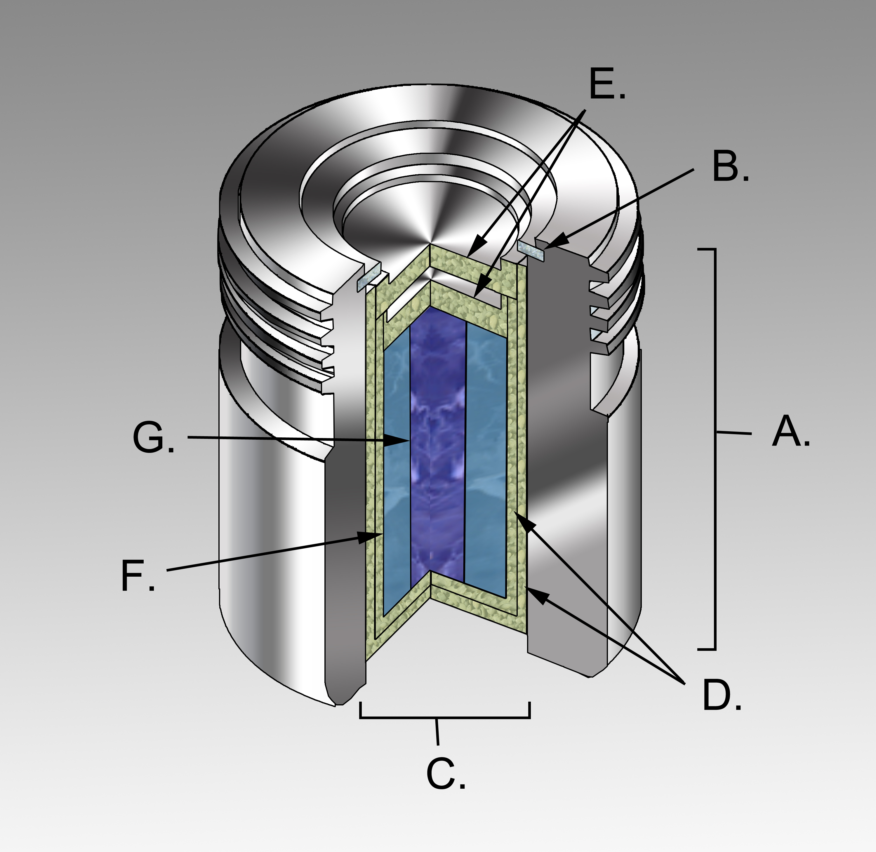 A diagram of a typical teletherapy radiation capsule comprised of the following: A.) an international standard source holder (usually lead), B.) a retaining ring, and C.) a teletherapy "source" composed of D.) two nested stainless steel canisters welded to two E.) stainless steel lids surrounding an F.) internal shield (usually uranium metal or a tungsten alloy) that protects a G.) cylinder of radioactive source material, often but not always cobalt-60. The diameter of the "source" is 30mm.